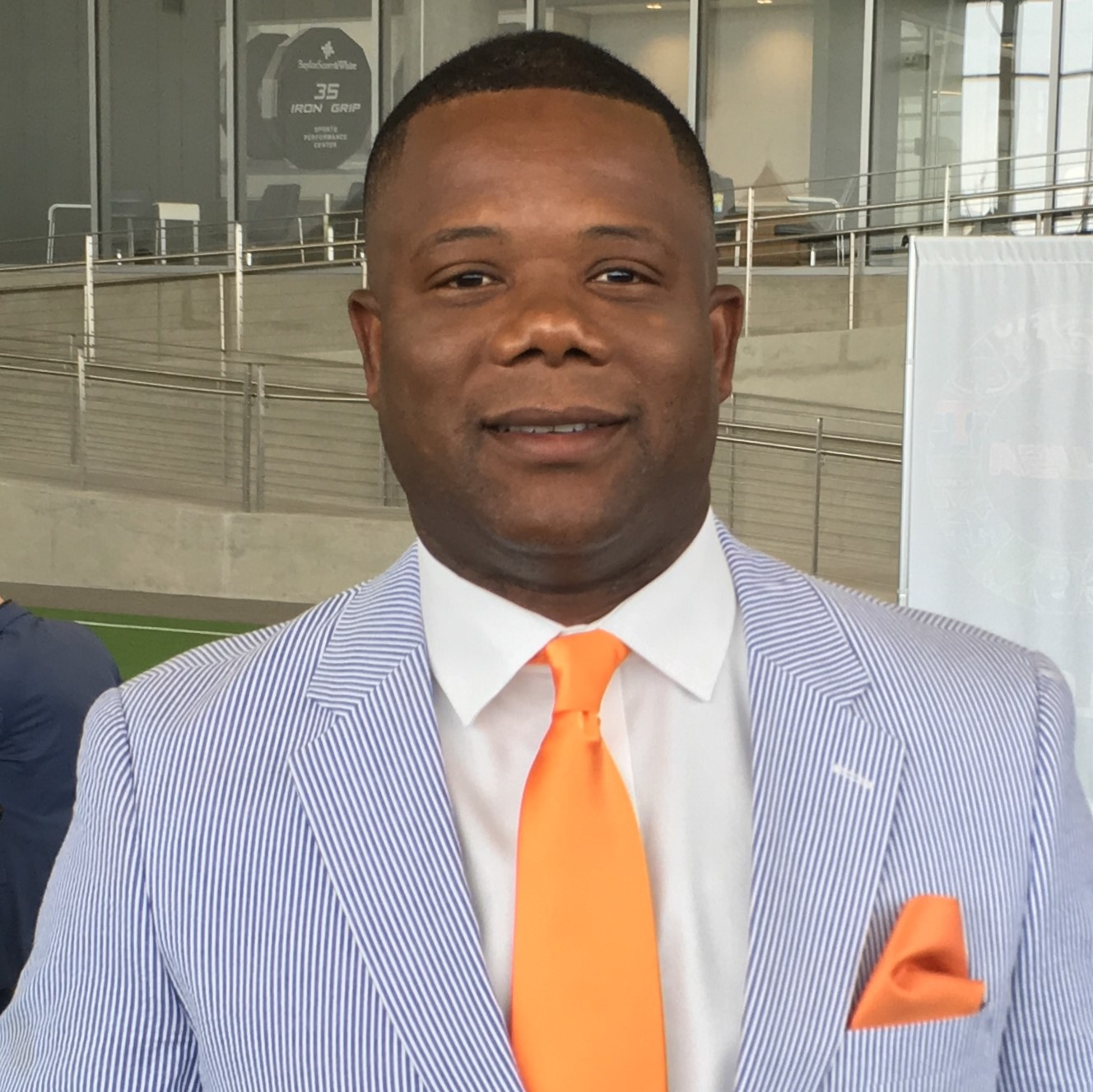 Frank Wilson, head coach of the UTSA Roadrunners football team, at the 2018 Conference USA media days in Frisco, Texas.